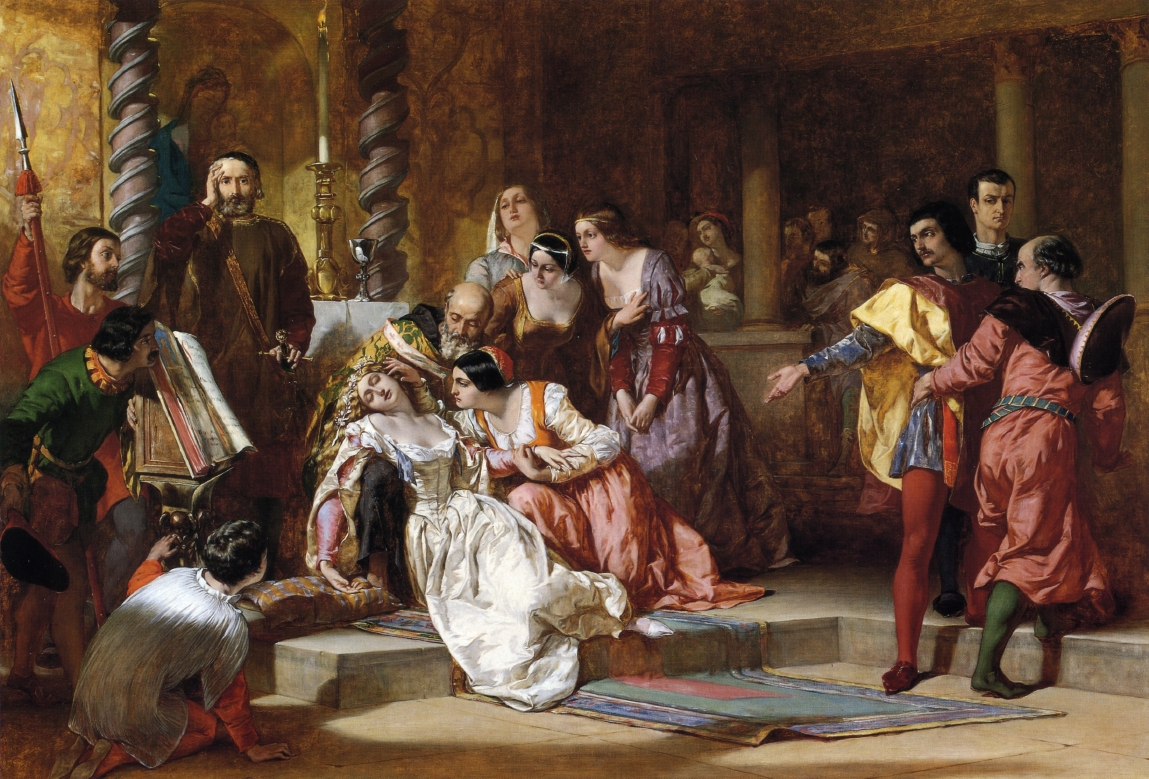 Depiction of the Church scene in Much Ado About Nothing by William Shakespeare